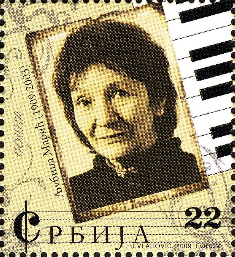 Great Personalities of Serbian Classical Music - Ljubica Maric (1909-2003)